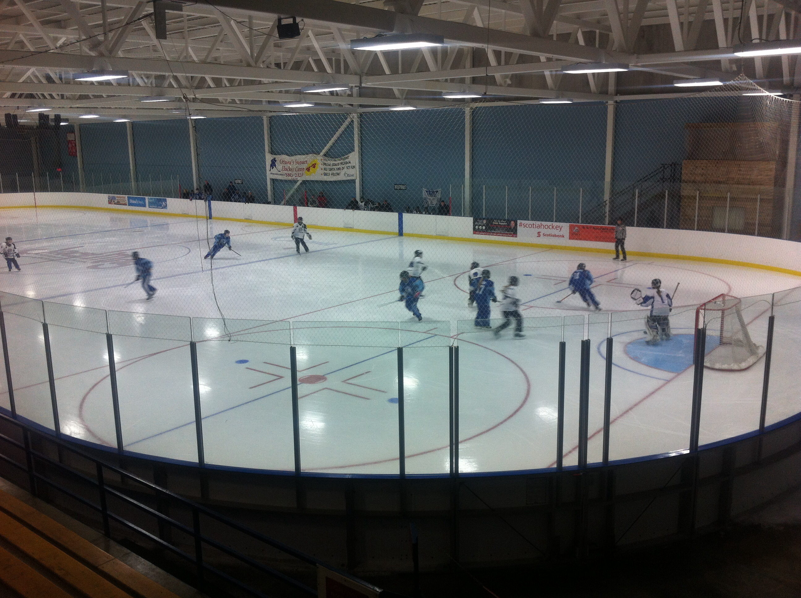 Rink. B in Walter Baker Sports Centre